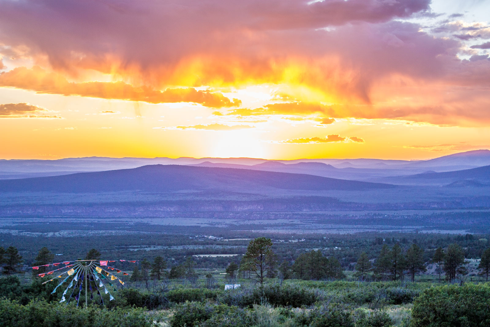 The view, looking west, from Lama. Photo by Bobby Burke.